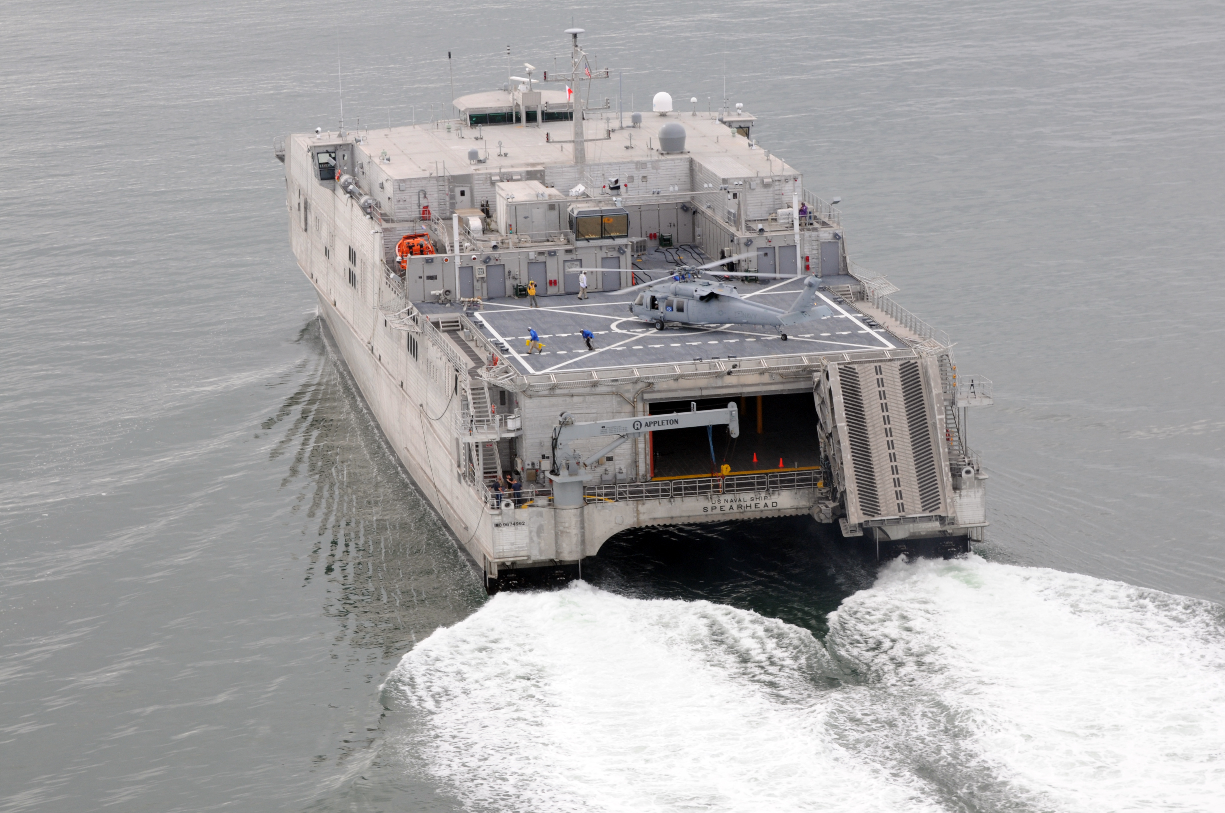 The Military Sealift Command joint high-speed vessel USNS Spearhead (JHSV 1) conducted high-speed trials, reaching speeds of approximately 40 knots off the coast of Virginia. Adm. Bill Gortney, commander of U.S. Fleet Forces, was aboard for the trial and was on the first helicopter to make a regularly scheduled passenger landing on the ship since passing its initial certification. (U.S. Navy photo by Mass Communication Specialist 1st Class Phil Beaufort/Released) 130820-N-ZO696-135